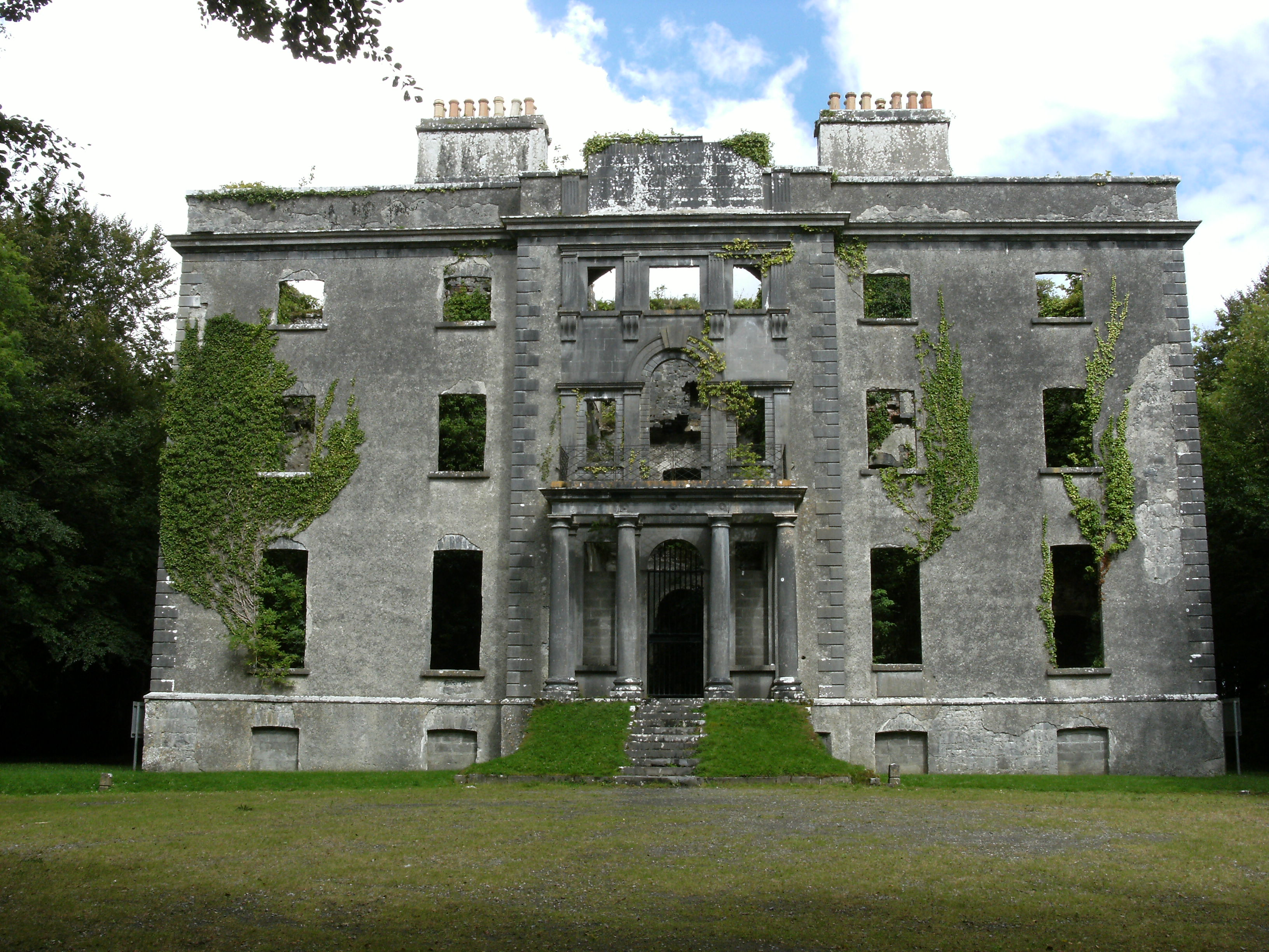 Moore Hall, Lough Carra, Co. Mayo 22nd August 2010